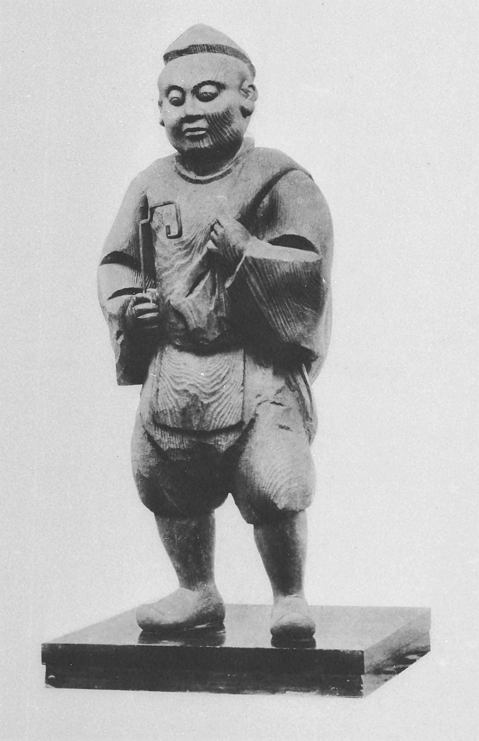 The wooden statue of Kōjō made in Nanbokuchō period, the collection of Enryakuji Temple, Otsu, Shiga prefecture. A Important Cultural Property of Japan.